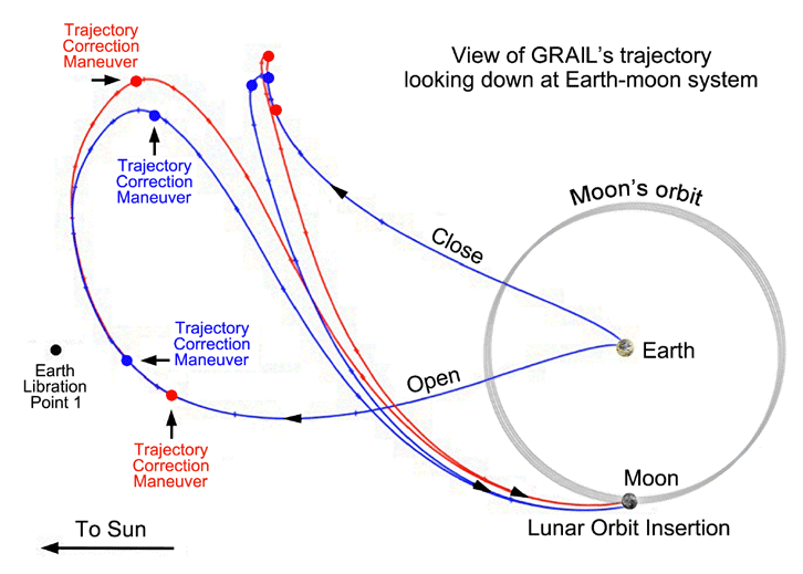 The figure shows GRAIL-A and GRAIL-B trajectories for a launch at the open and close of the launch period. The low-energy trajectories leave Earth following a path towards the sun, passing near the interior Sun-Earth Lagrange Point 1 (Earth Libration Point 1) before heading back towards the Earth-moon system.